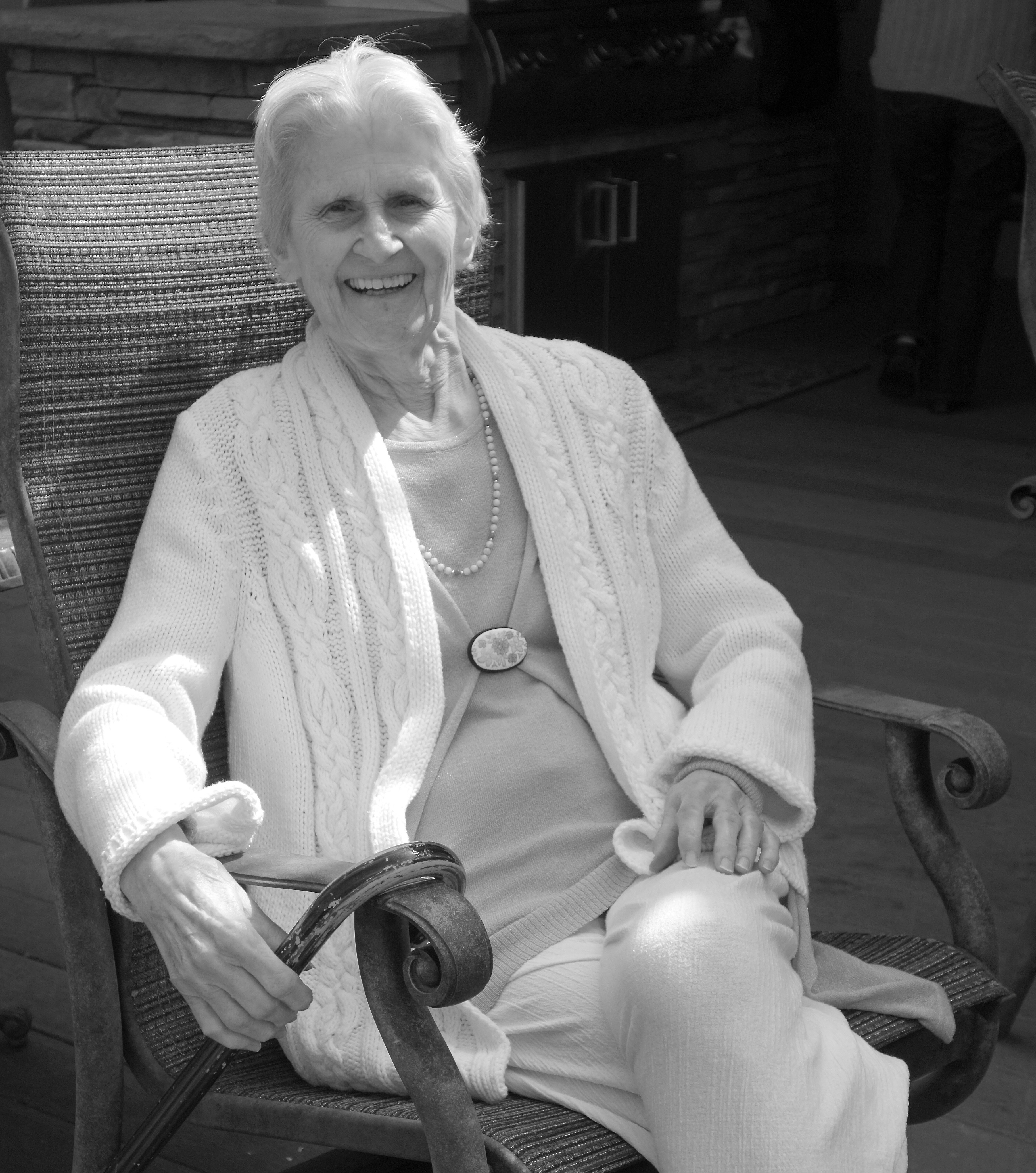 Photo of Dalma Takacs, novelist and editor of "Clear the Line", Hungary's struggle to leave the Axis during the Second World War.